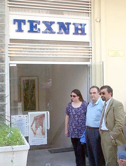 Outside view, image from the Tehni Art Association, Kilkis, Central Macedonia, Greece